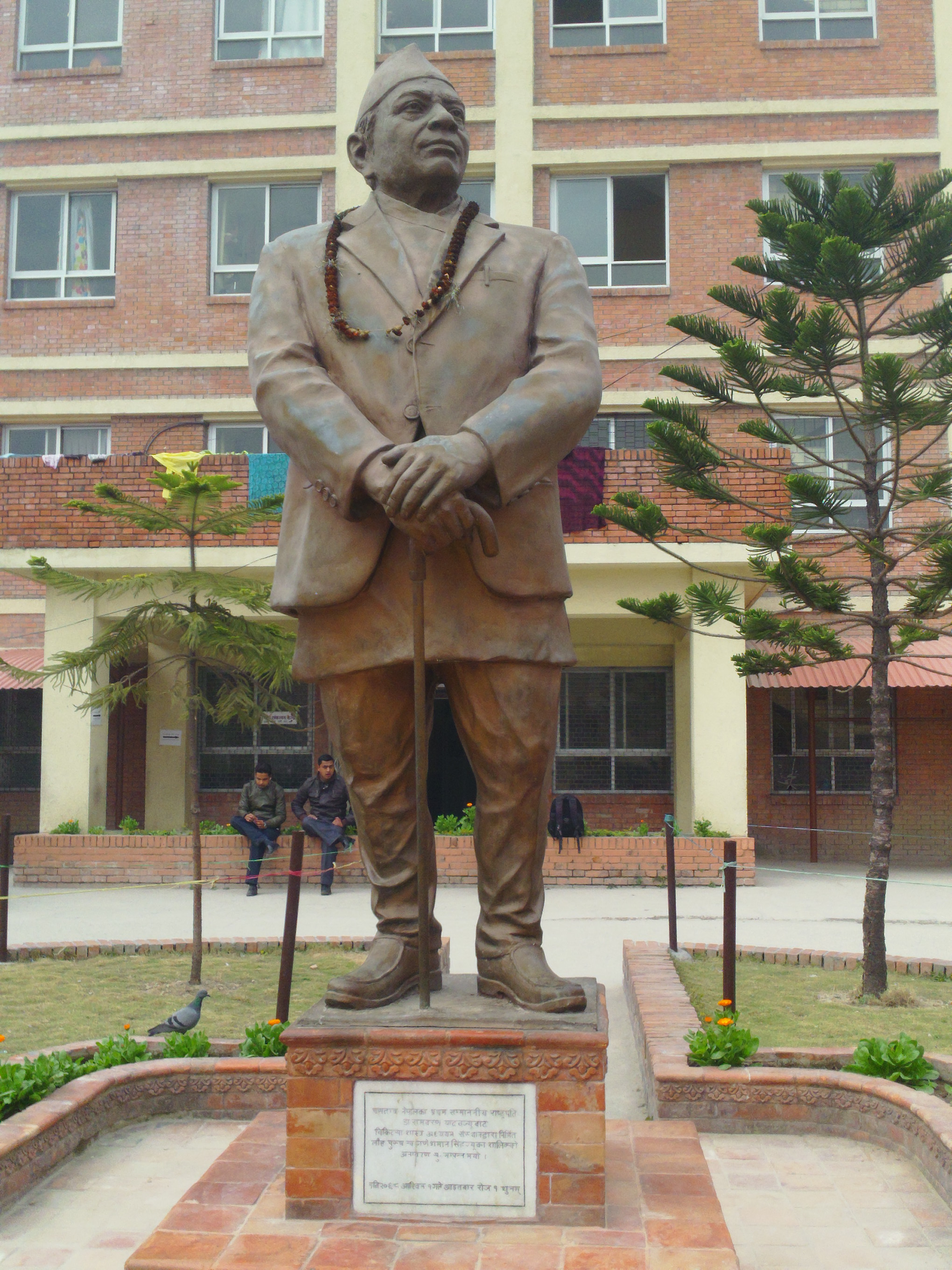 Ganesh Man Singh Statue in front of Ganesh Man Singh Bhawan in[TU Teaching Hospital, Kathmandu